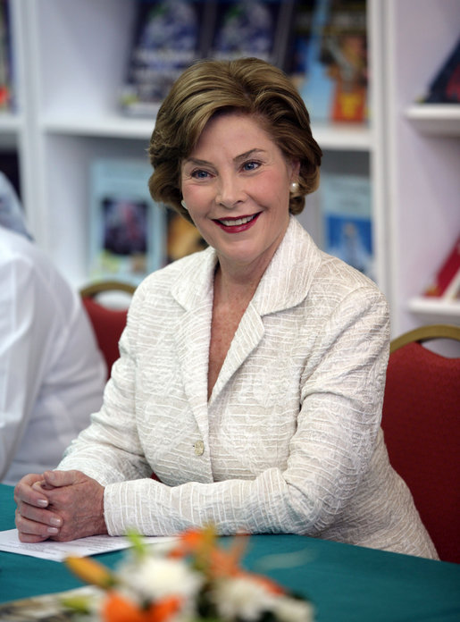 Mrs. Laura Bush listens to participants at a Big Read Egypt/U.S. roundtable Sunday, May 18, 2008, in Sharm el-Sheikh. The Big Read Egypt/U.S. is an initiative of the U.S. Department of State and the National Endowment for the Arts, in partnership with the Institute of Museum and Library Services, Arts Midwest, and the U.S. Embassy in Cairo.